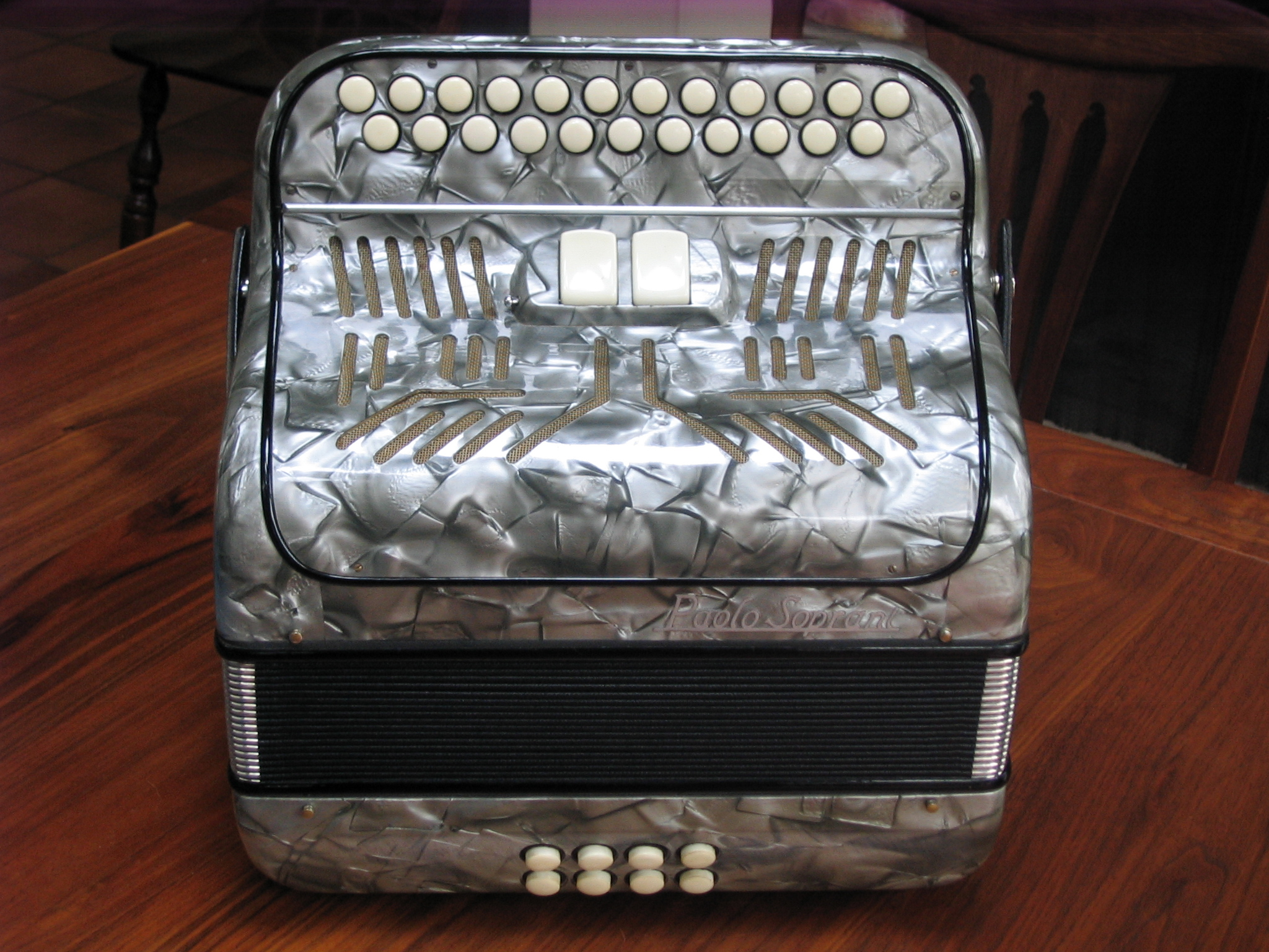 Two-row diatonic button accordion made in the 1950s by the Paolo Soprani company of Castelfidardo, Italy, of the kind favoured by Irish musicians; finished in grey celluloid.